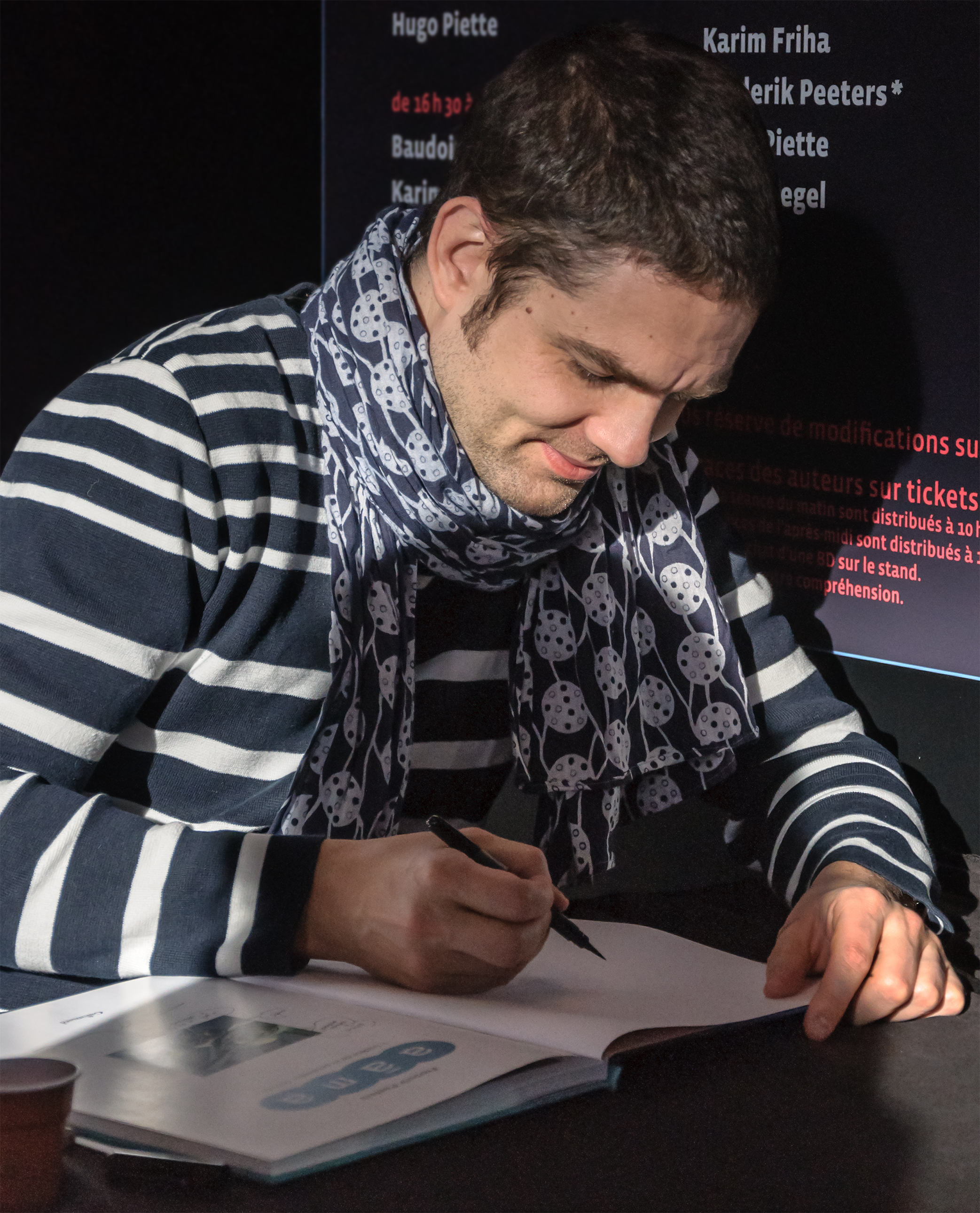 Frederik Peeters in autograph session at the 40th Angoulême International Comics Festival, 2013.